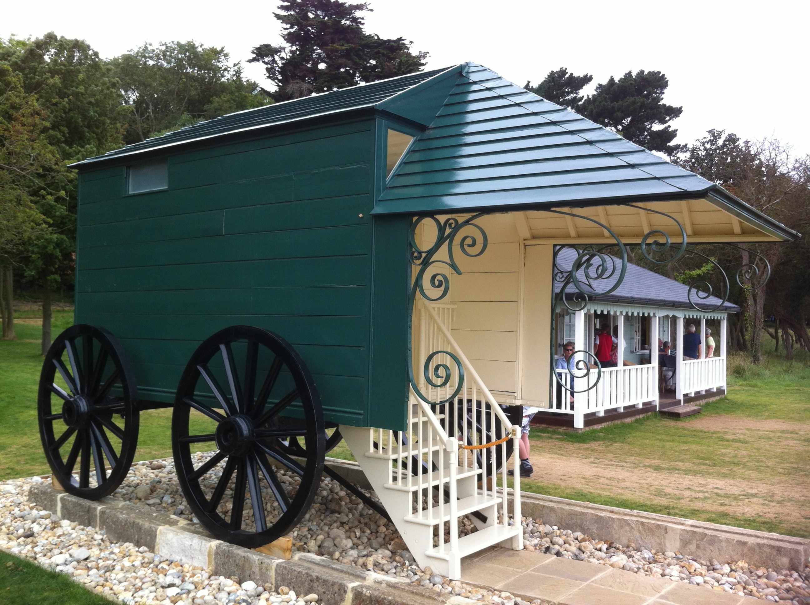 Queen Victoria's Bathing Machine in its new home on the sea shore